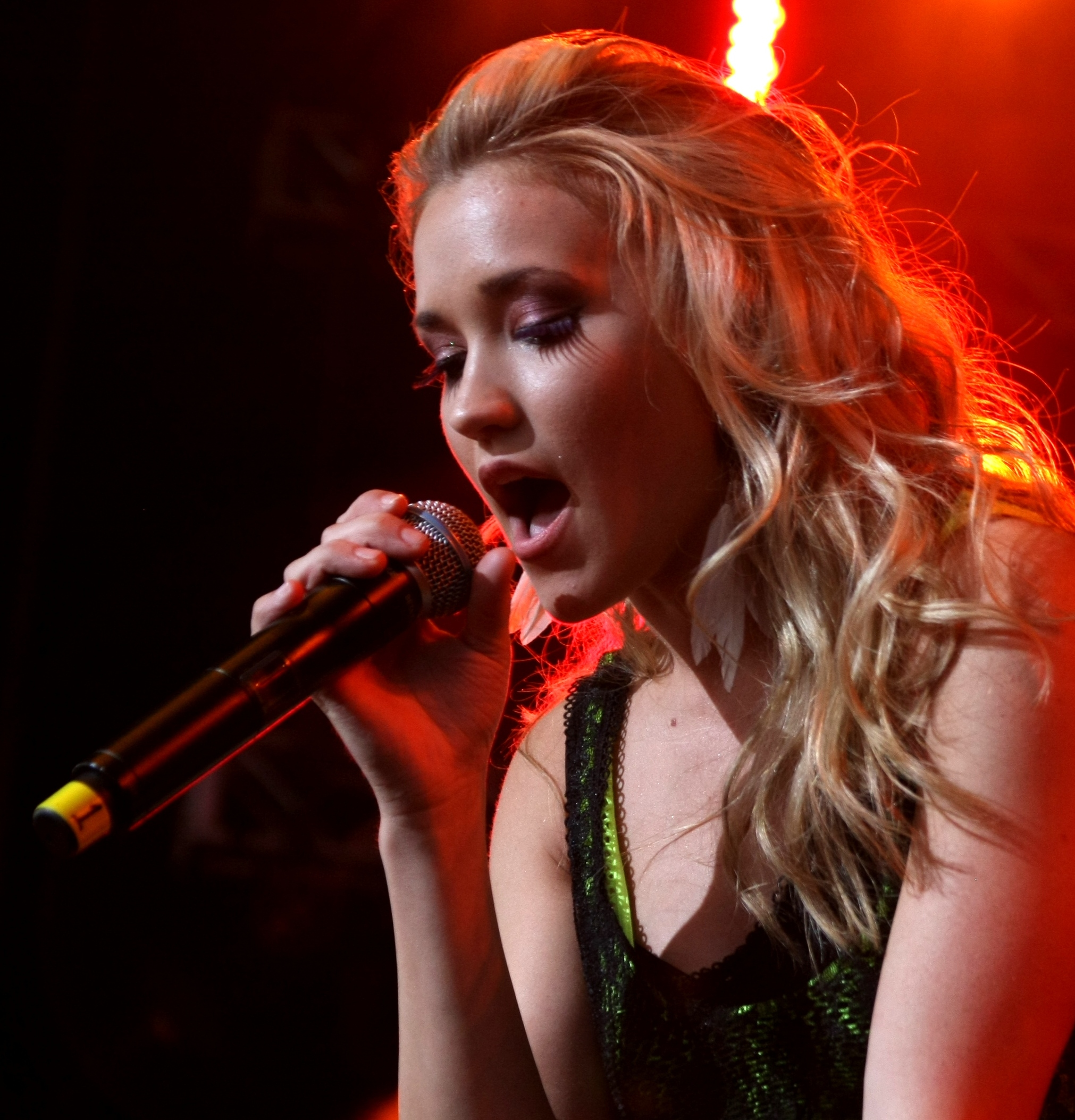 Emily Osment performing live at KISS concert in May 2010.